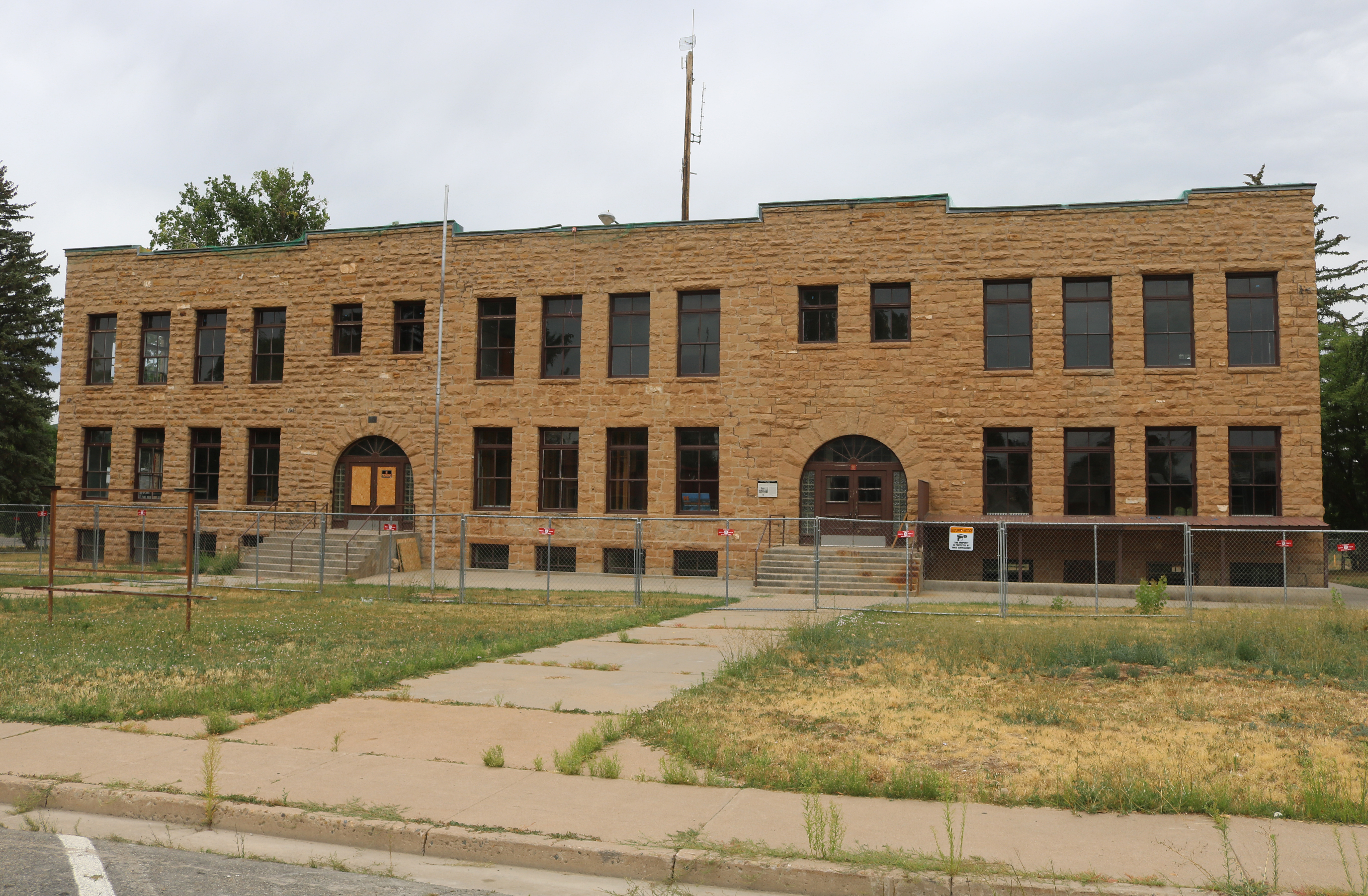 The former Cortez High School, located at 121 East First Street in Cortez, Colorado. The property is listed on the National Register of Historic Places. 5MT.12697